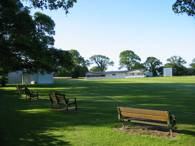 Quarndon Cricket Ground. The cricket ground enjoys a delightful setting at the top of the village with views over the surrounding countryside.